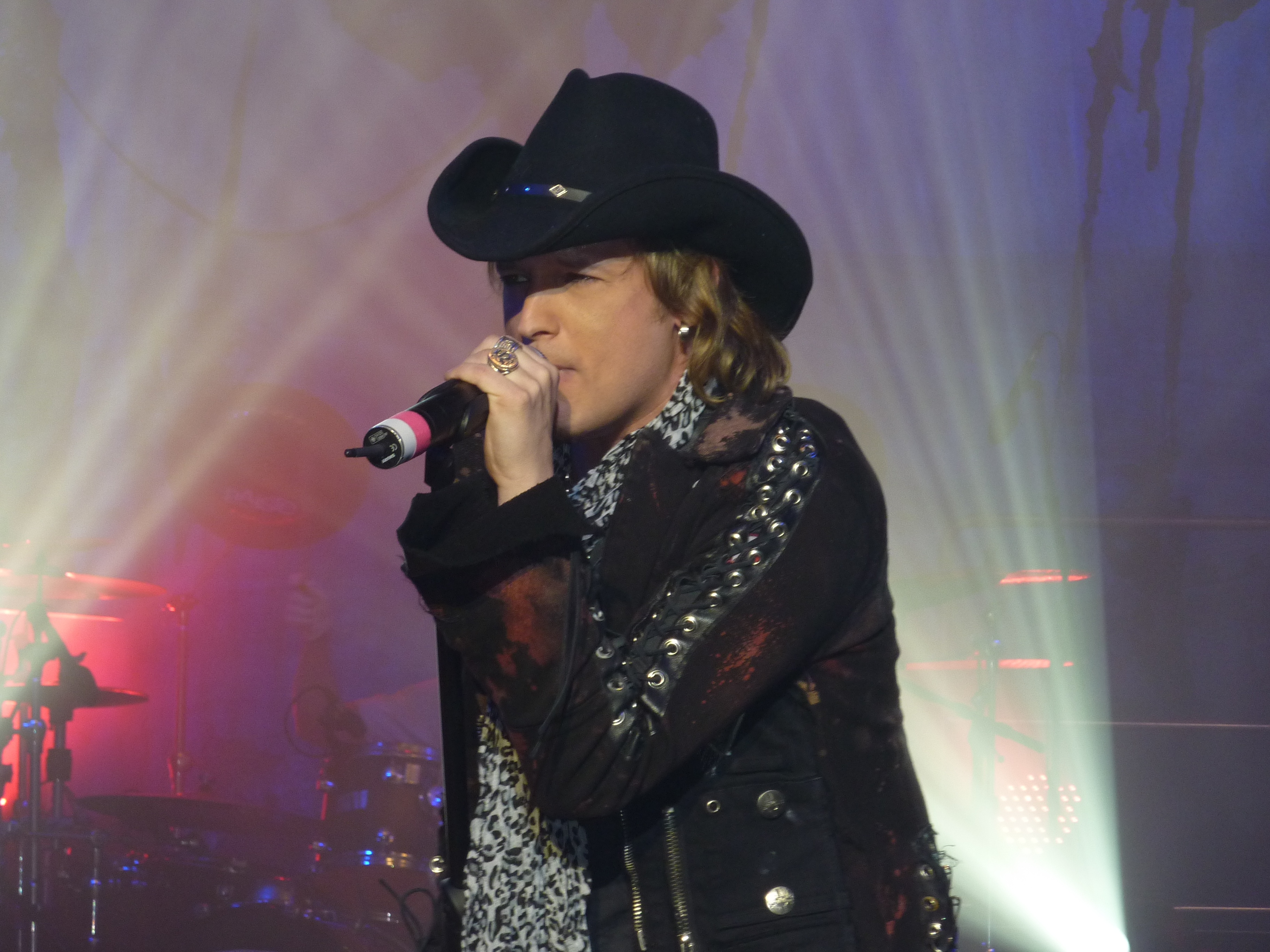 Tobias Sammet (Avantasia) - Fulda - 2010-12-18